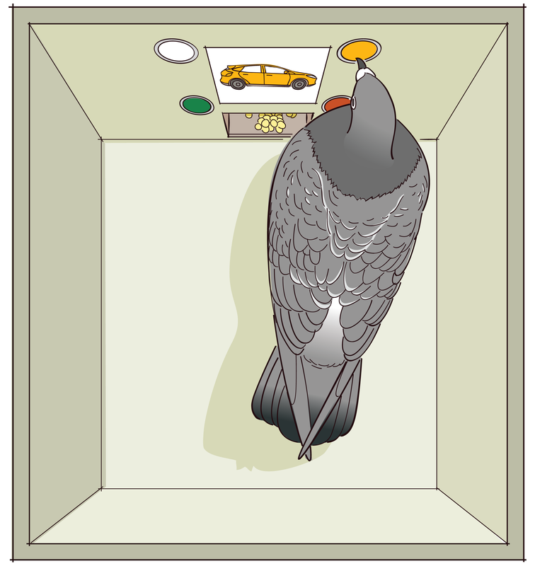 Operant Conditioning Involves Choice, red green button, Skinner box, pigeon